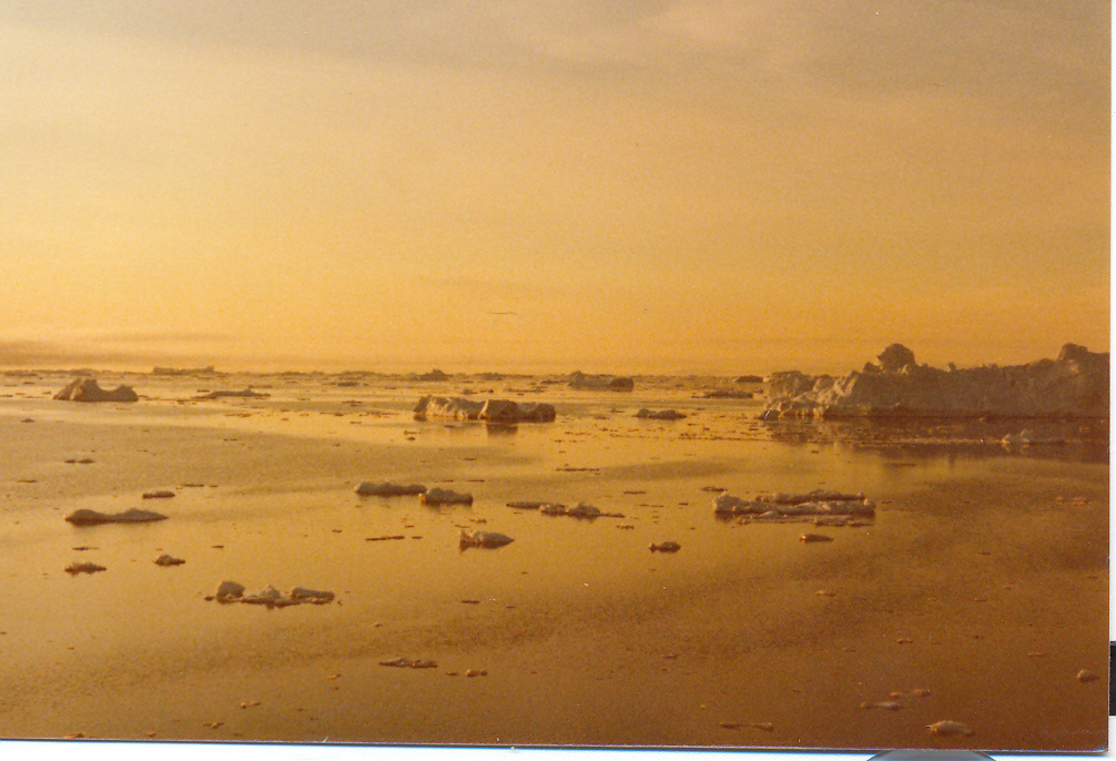 Late summer evening in Disko Bay Photo by Jan Kronsell